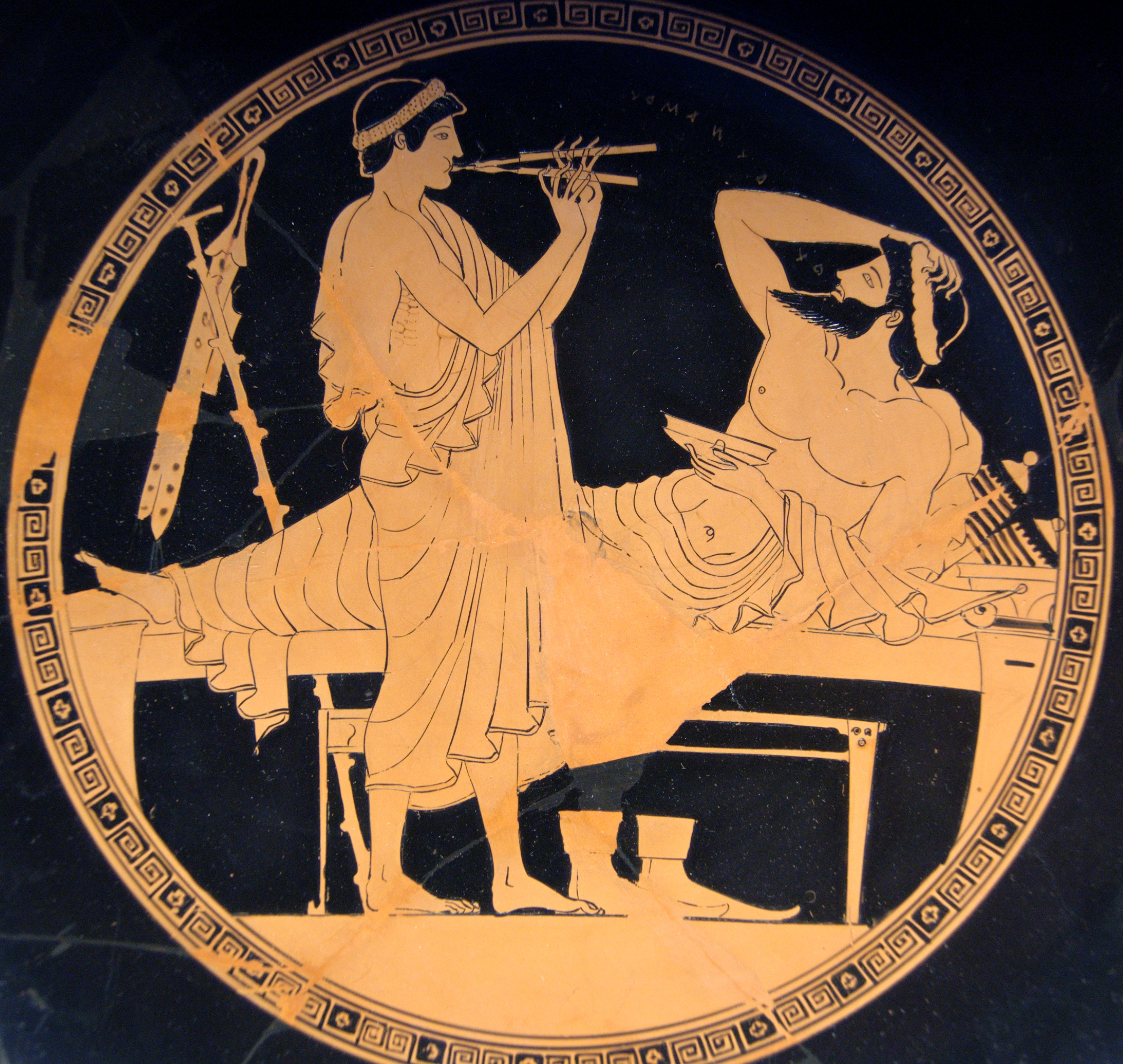 Symposium scene. Retrograde inscription: OYAYNAMOY. Tondo of an Attic red-figure kylix, ca. 480 BC. From Vulci.